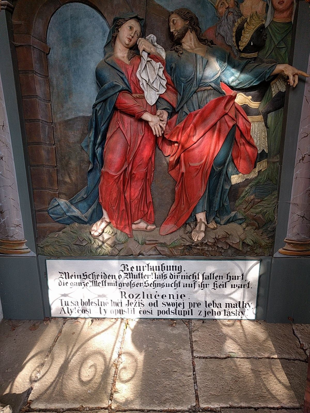 Chapel "Jesus meets his mother", colorful wooden figures with an information board with German and Slovak inscriptions, that is station 18 of the Pilgrims' Way.